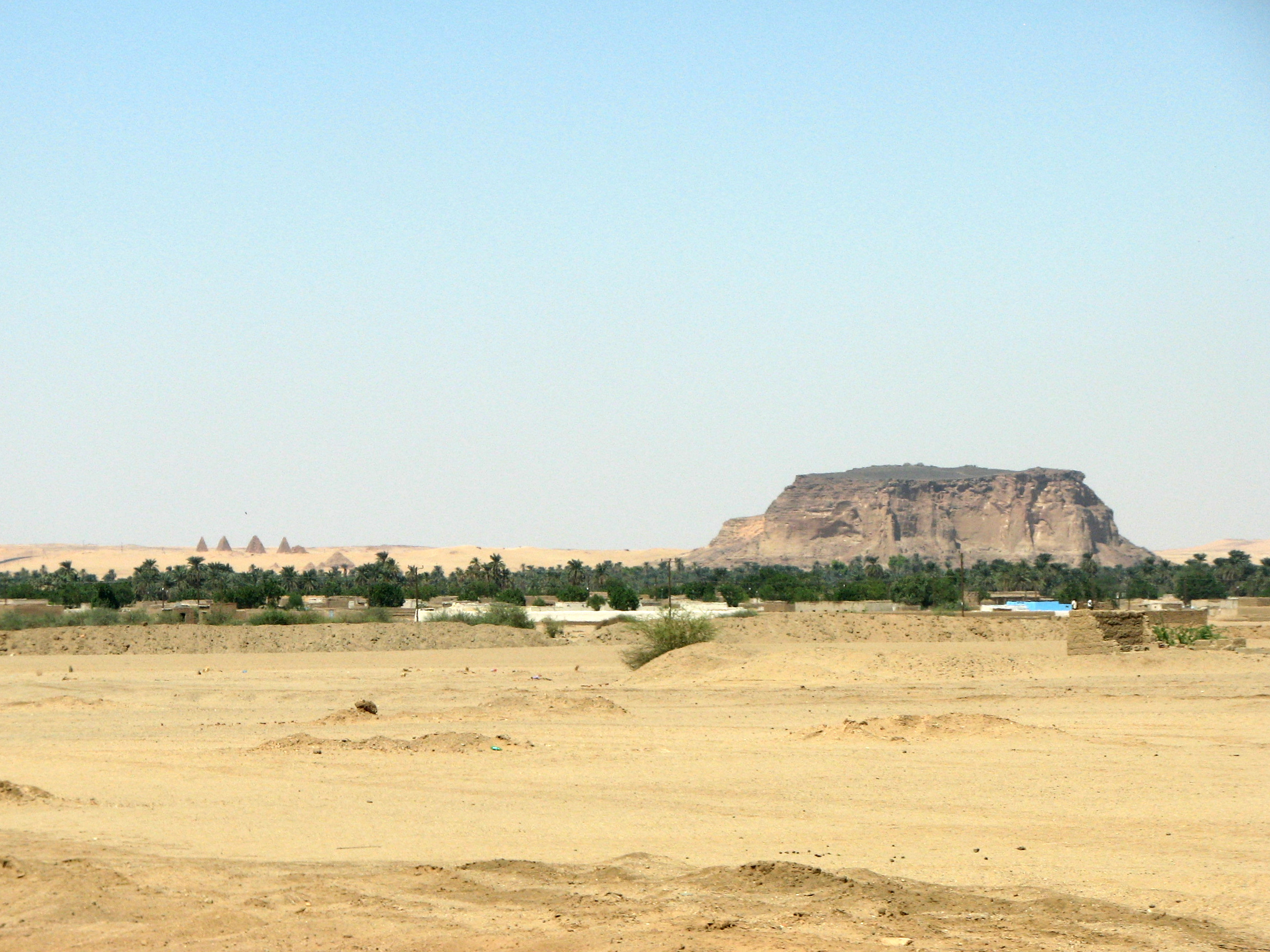 Albarkal Mountains